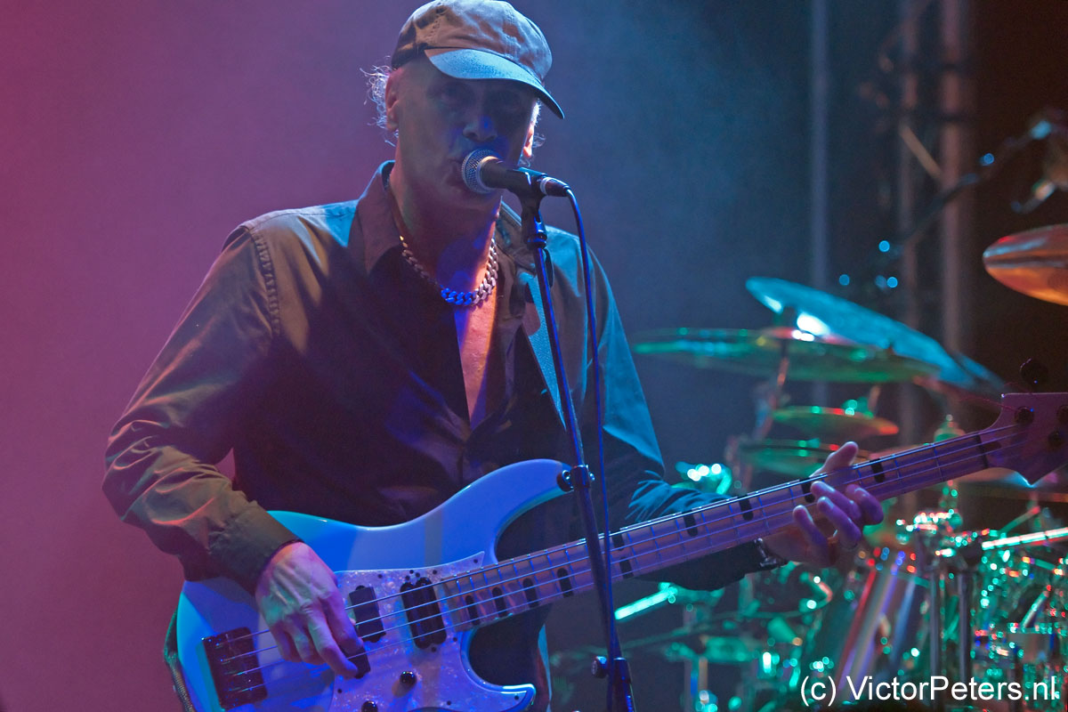 Billy Sheehan performing with Mike Portnoy, Derek Sherinian and Tony MacAlpine at De Boerderij, Zoetermeer, The Netherlands (Oct. 21., 2012)